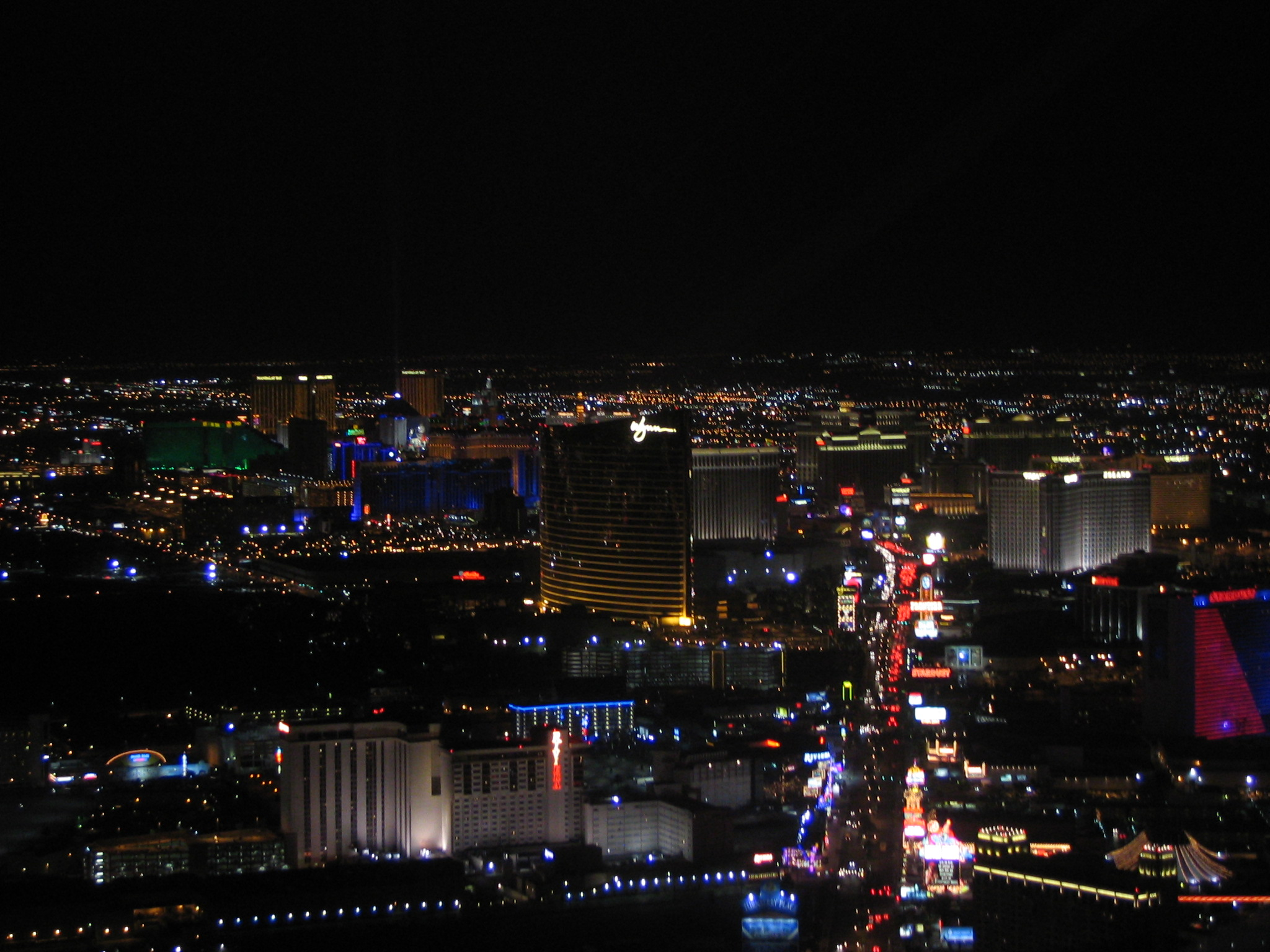 View of the strip, from atop Stratosphere